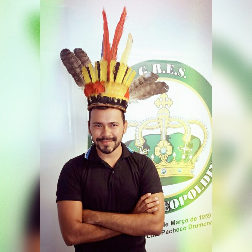 Ronan Marinho, artist.